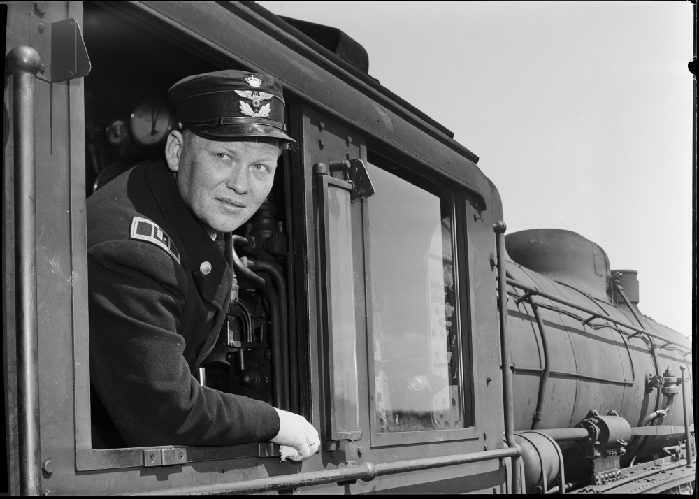 Locomotive KB id: turck_58727 Photo: Sven Türck (1897-1954) Department of Maps, Prints and Photographs, The Royal Library, Denmark.